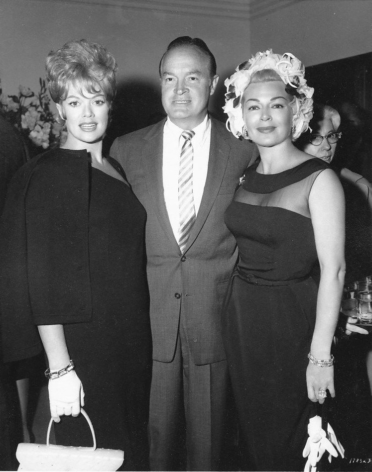 Janis Paige (left), Bob Hope and Lana Turner, 1960. This is an original, vintage 1960 8x10 double weight photo issued for the MGM film Bachelor in Paradise. The original stamp is on the rear of the photo